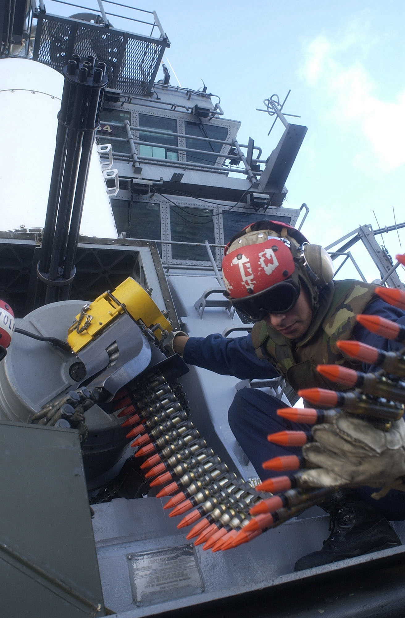 At sea aboard USS Constellation (CV 64) Nov. 14, 2002 -- Fire Controlman 2nd Class William McKinney guides 20mm rounds while loading the Close-In Weapons System (CIWS). Constellation is on a regularly scheduled six-month deployment and are conducting combat missions in support of Operation Enduring Freedom. U.S. Navy Photo by Photographers Mate 2nd Class Felix Garza Jr. (RELEASED)